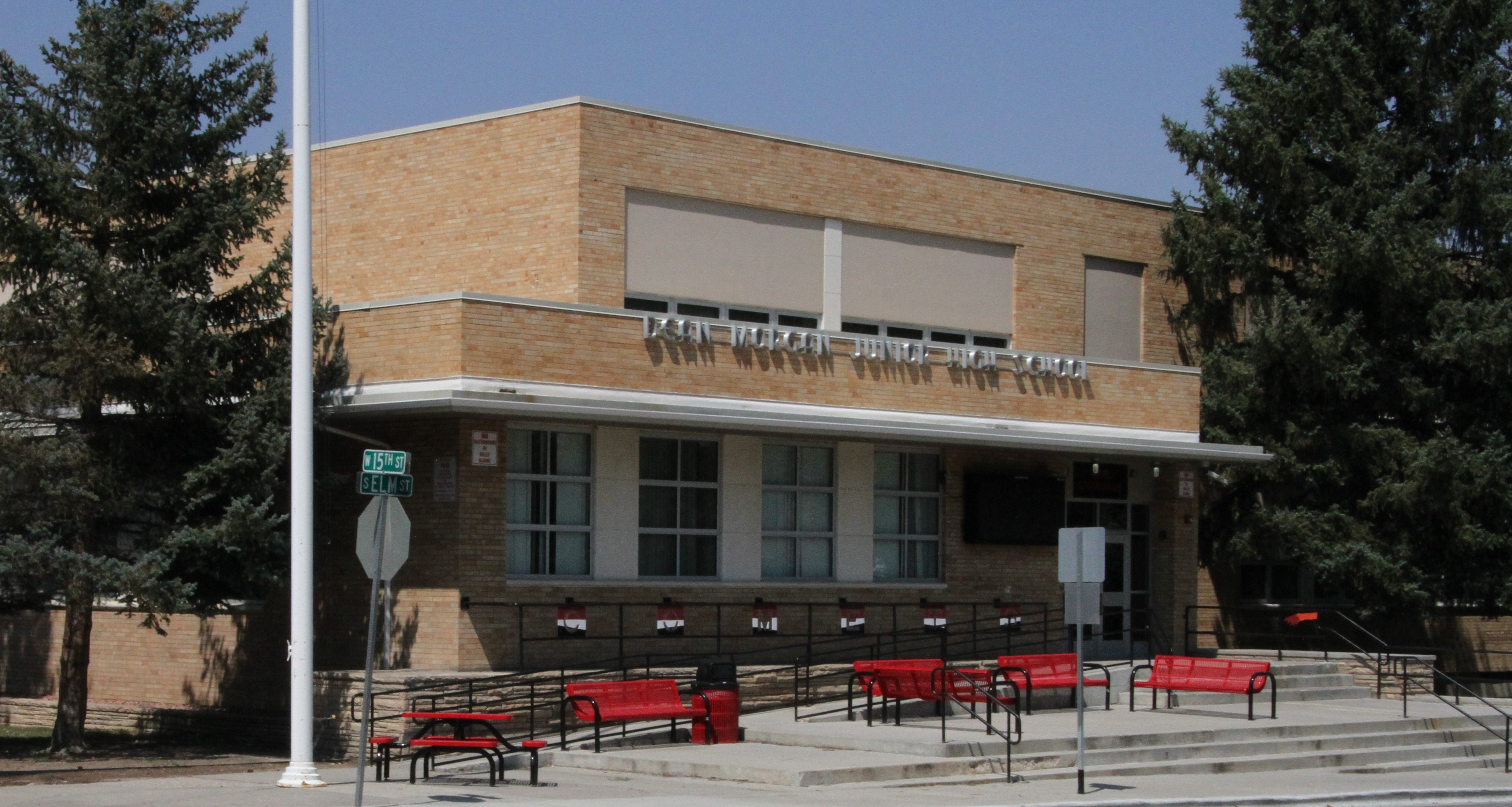 Dean Morgan Junior High School, 1440 South Elm Street, Casper, Wyoming, United States 42°50′09″N 106°19′46″W